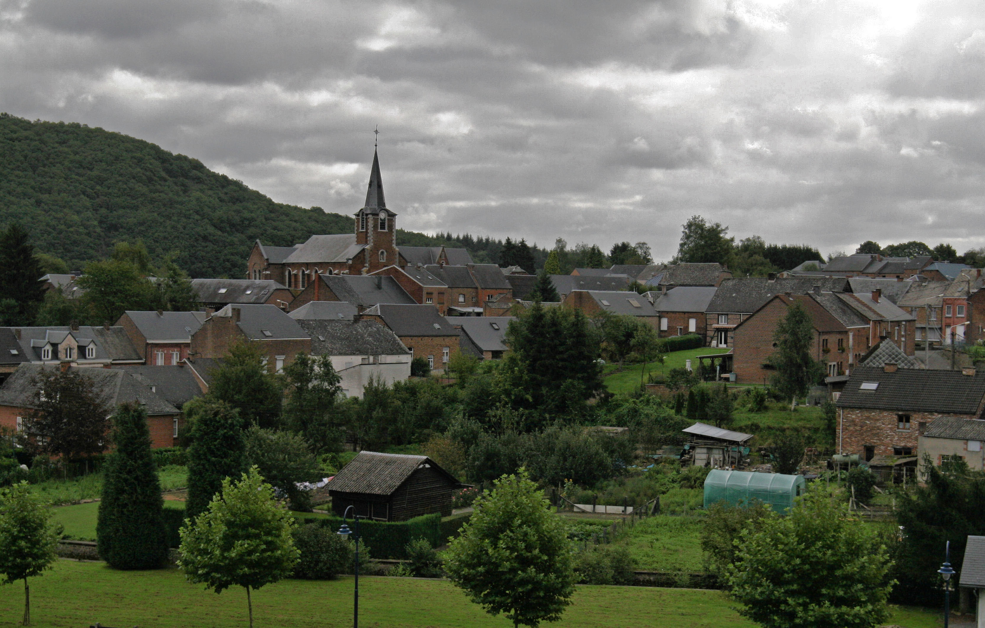 View of the village of Houyet, a municipality in the Belgian ardennes